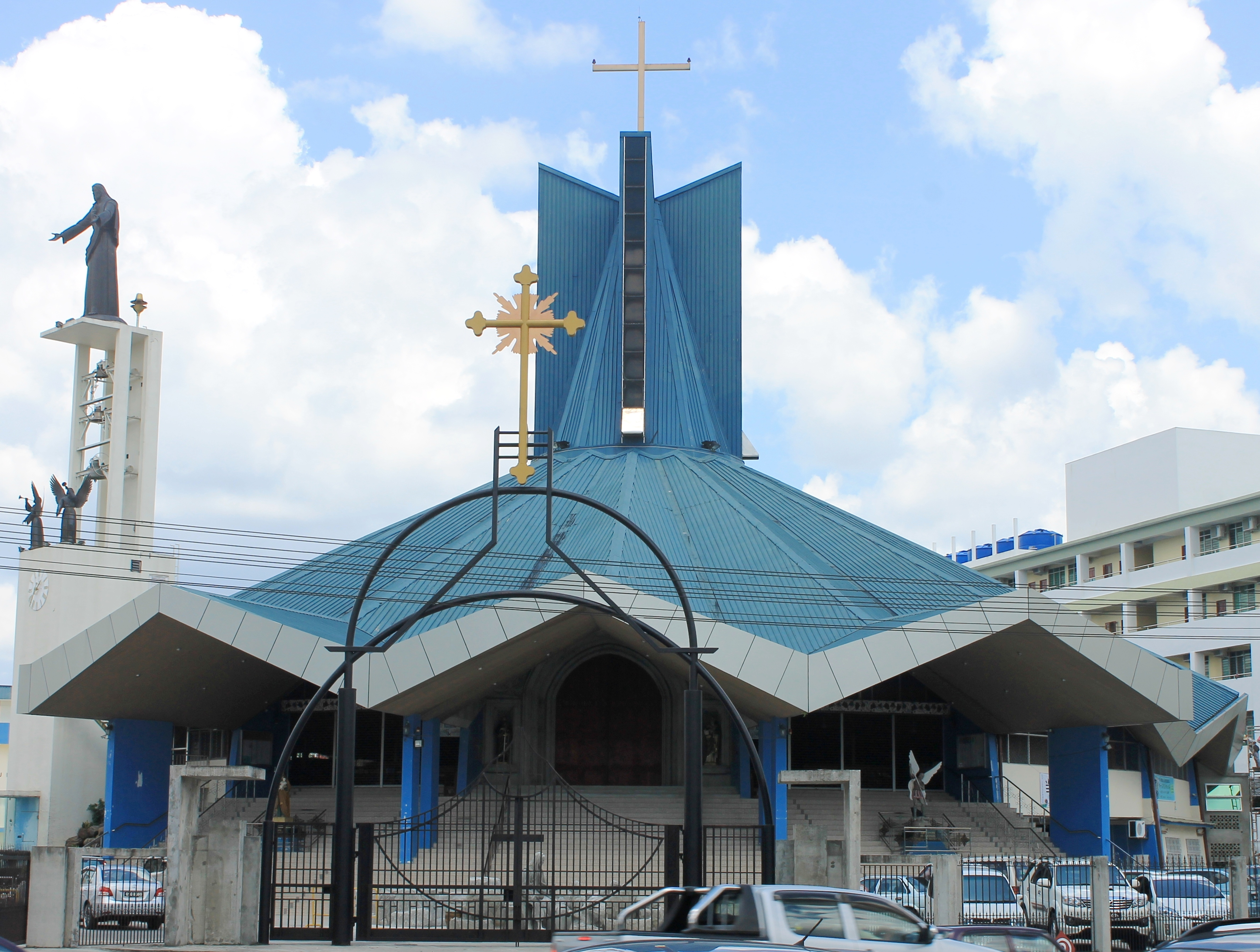 Sacred Heart Cathedral in Sibu with statue of Jesus Christ and two angels.